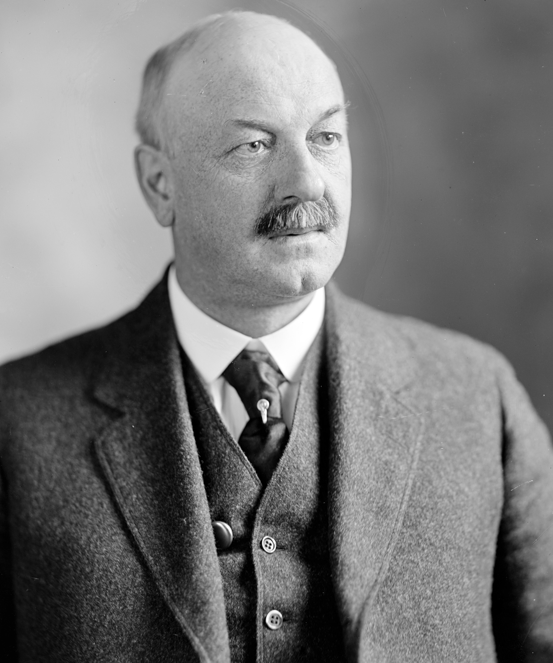 Edward Hills Wason, US Representative from New Hampshire